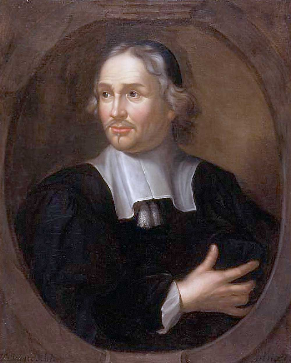 Jacobus Golius (1596-1667) Dutch mathematician and orientalist